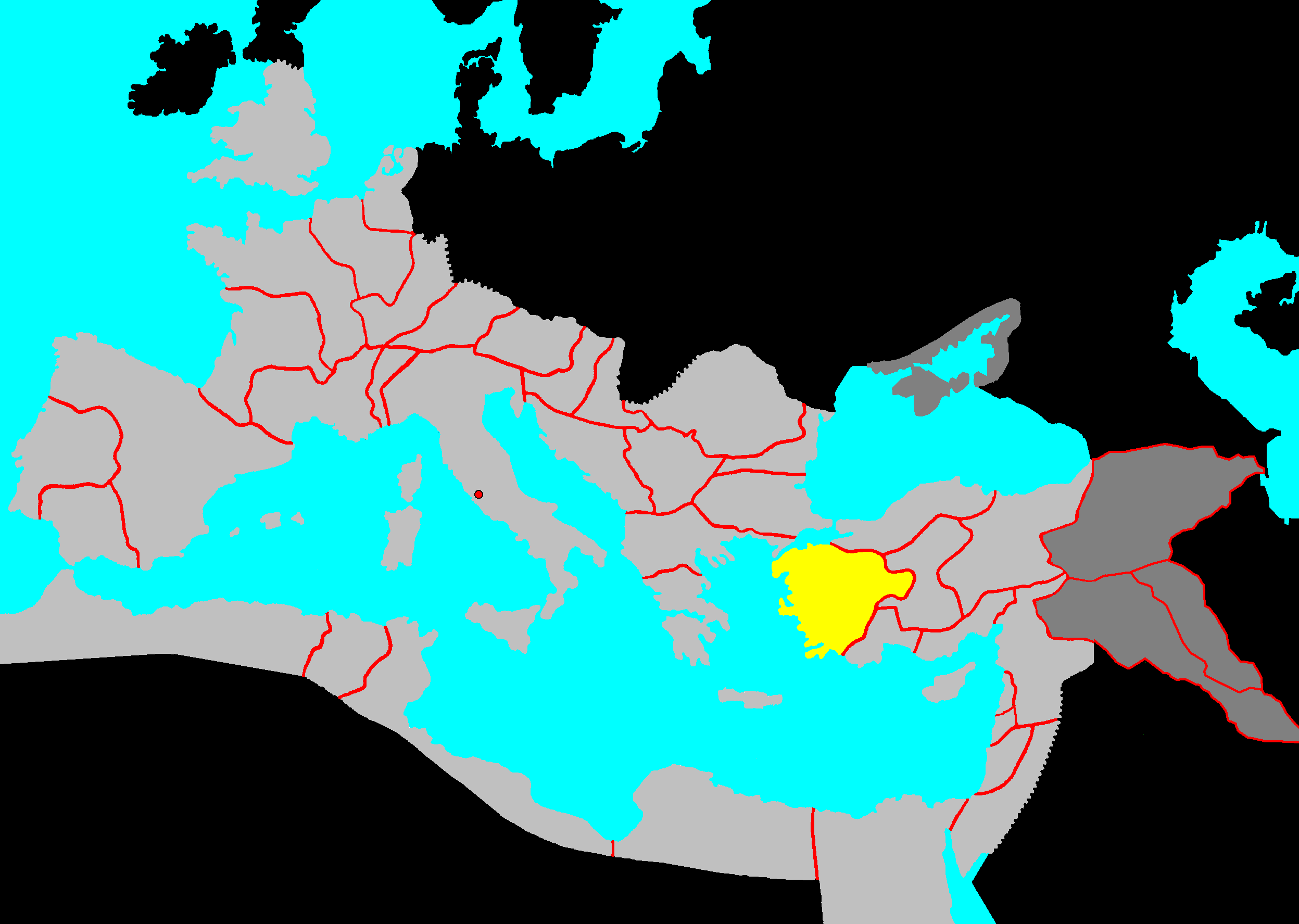 Description: provinces of the Roman Empire (Imperium Romanum) Source: own work Date: December 2005 Author: --Immanuel Giel 12:44, 13 December 2005 (UTC) Other versions: none